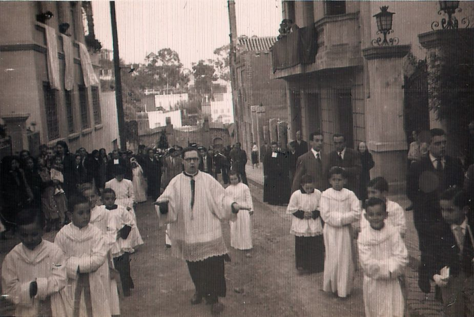 Church procession of the San Jordi parish (Carrer de la Mare de Déu dels Reis, Barcelona).